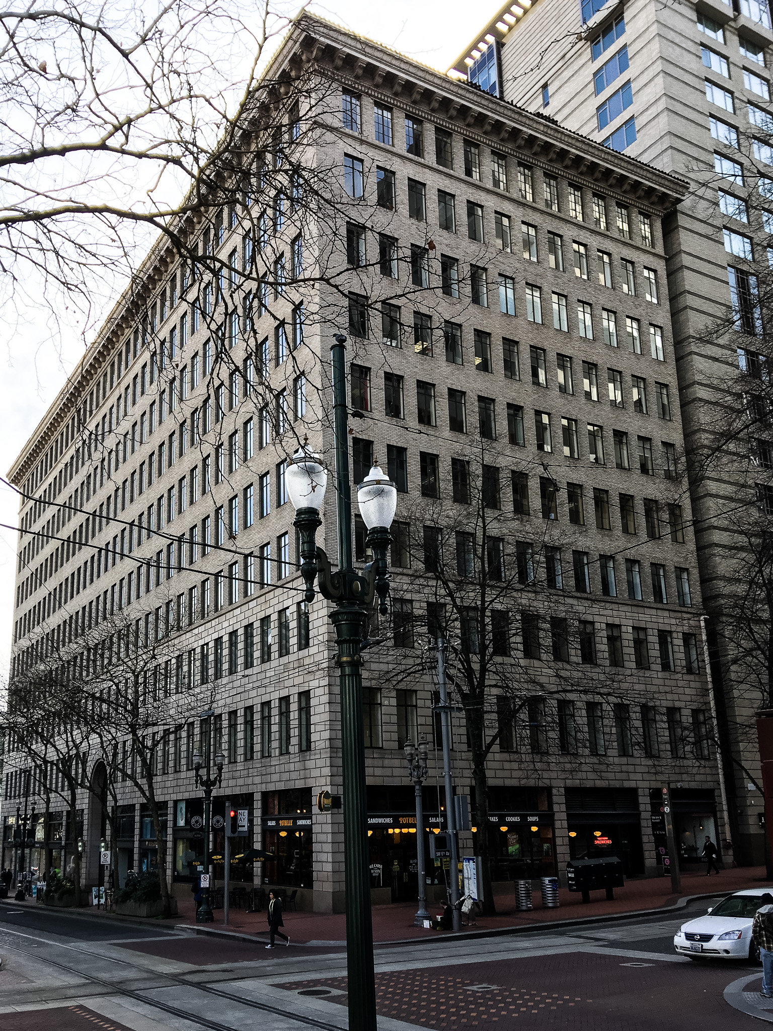 The Pacific Building, 520 SW Yamhill. Portland Oregon. Built by the Corbett Investment Co.. Completed in 1925. Architect A.E. Doyle and Associates (including architect Pietro Belluschi who had joined the company recently and this was the first building he worked on : the design of the lobby and much else is his. It had the first underground Portland parking garage in Portland. The Pacific Building is now listed on The National Register of Historic Places.